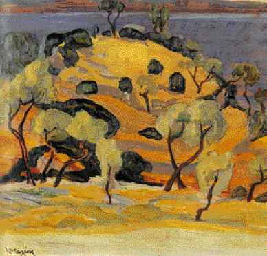 Sounion